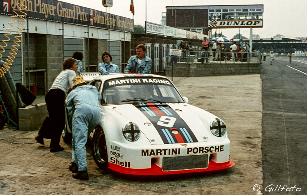 Porsche 935 PulledBk